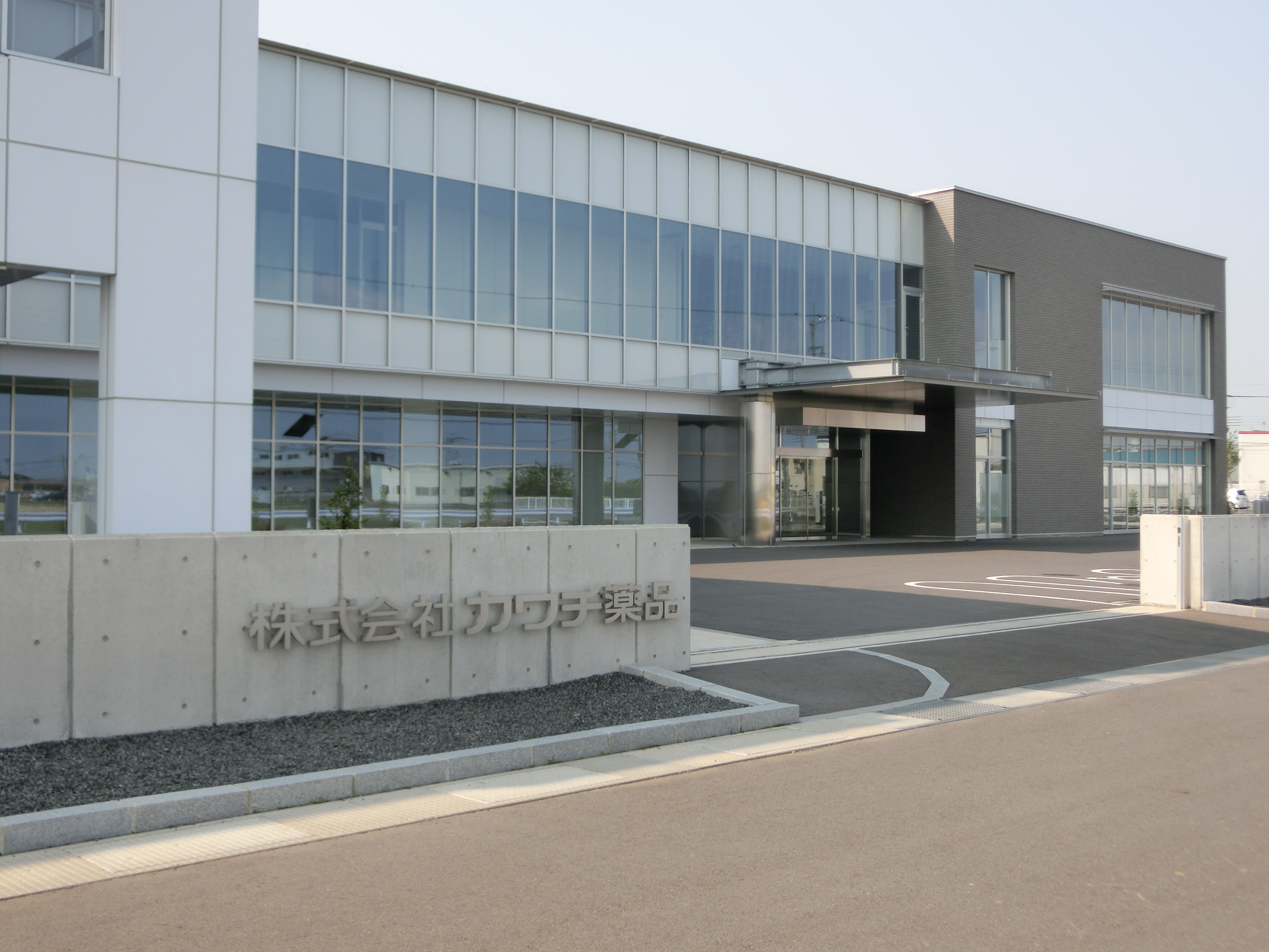 Cawachi Head Office